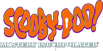 Official logo of the animated series Scooby-Doo! Mystery Incorporated.